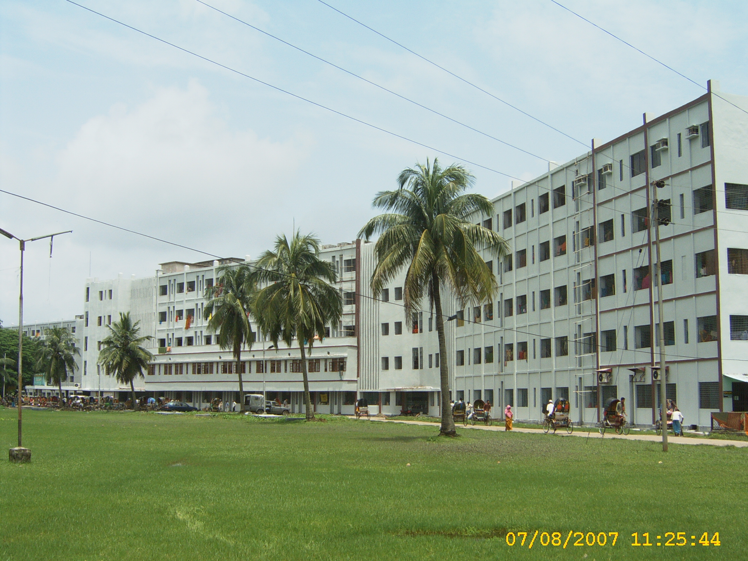 Barisal Sher-e-Bangla Medical College, Barisal, Bangladesh